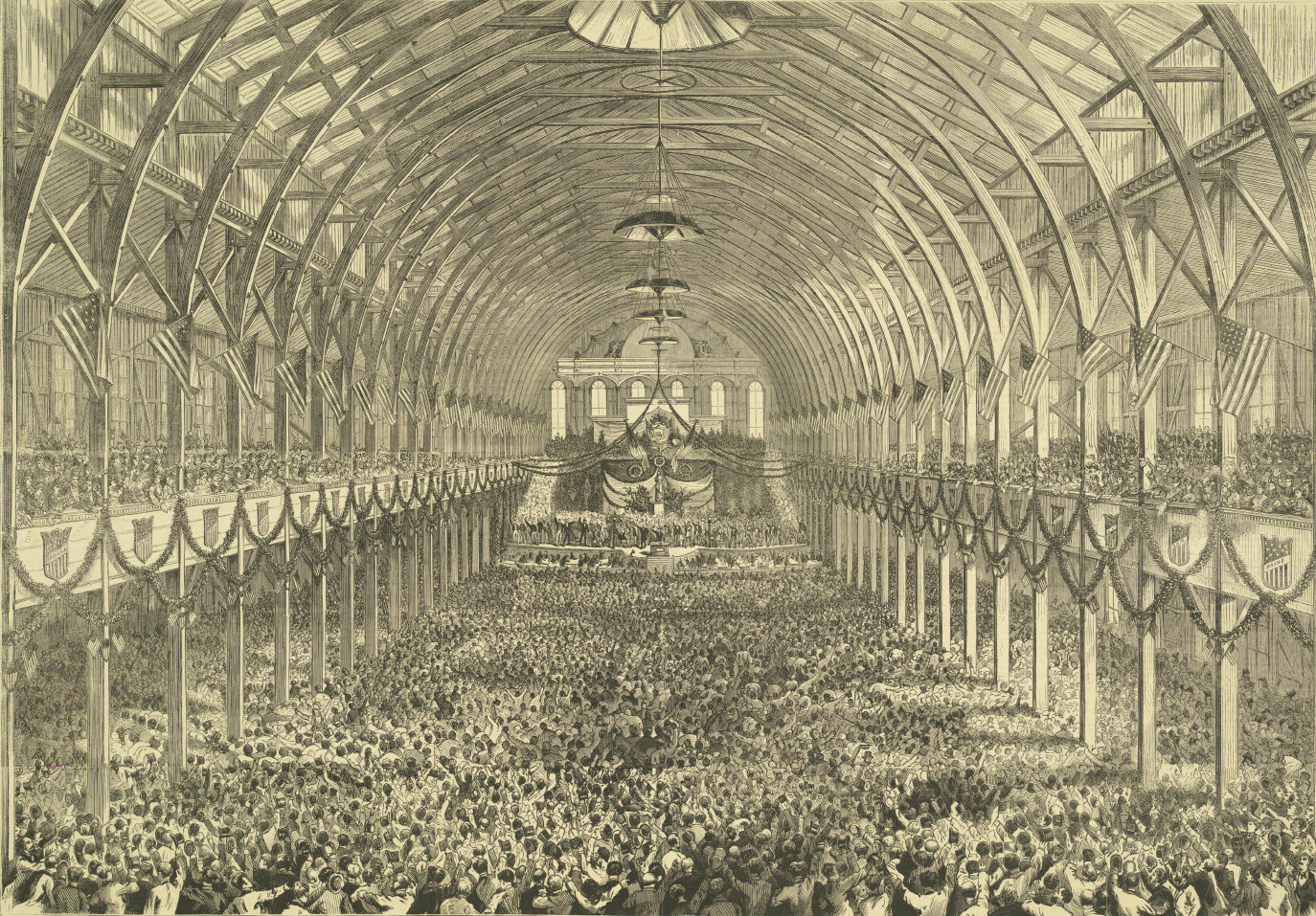 Collection: Cornell University Collection of Political Americana, Cornell University Library Repository: Susan H. Douglas Political Americana Collection, #2214 Rare & Manuscript Collections, Cornell University Library, Cornell University Title: Ohio - The Cincinnati Convention of Liberal Republicans Political Party: Republican Election Year: 1872 Date Made: 1872 Measurement: Sheet: 16 x 21.75 in.; 40.64 x 55.245 cm Classification: Publications Persistent URI: There are no known U.S. copyright restrictions on this image. The digital file is owned by the Cornell University Library which is making it freely available with the request that, when possible, the Library be credited as its source.